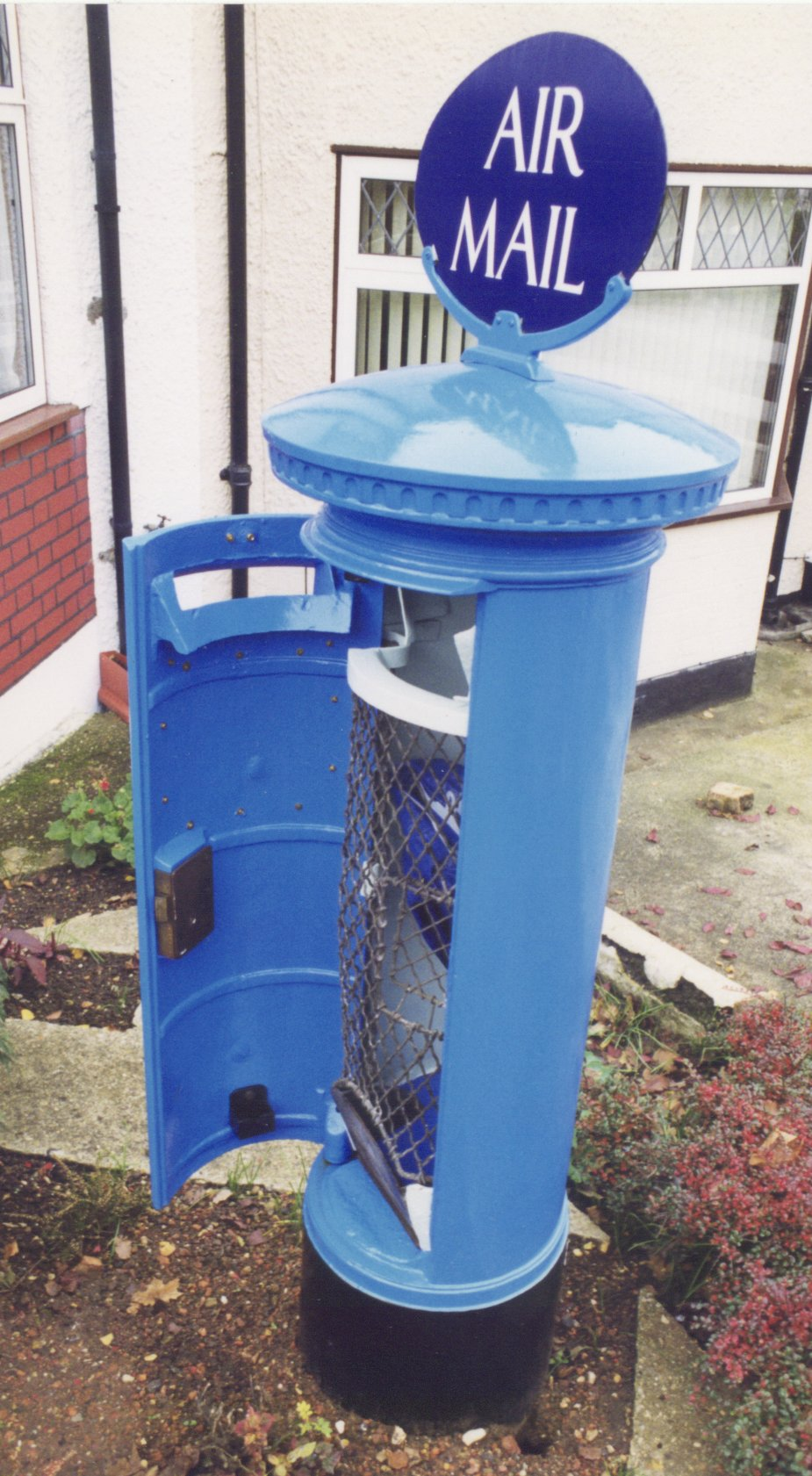 Air Mail pillar box in original colours at South Harrow.